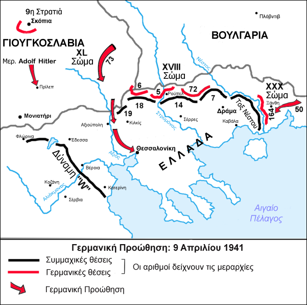 Map in Greek of the battle of Greece in April 1941, showing the front line on 9th April. The numbers indicate divisions.